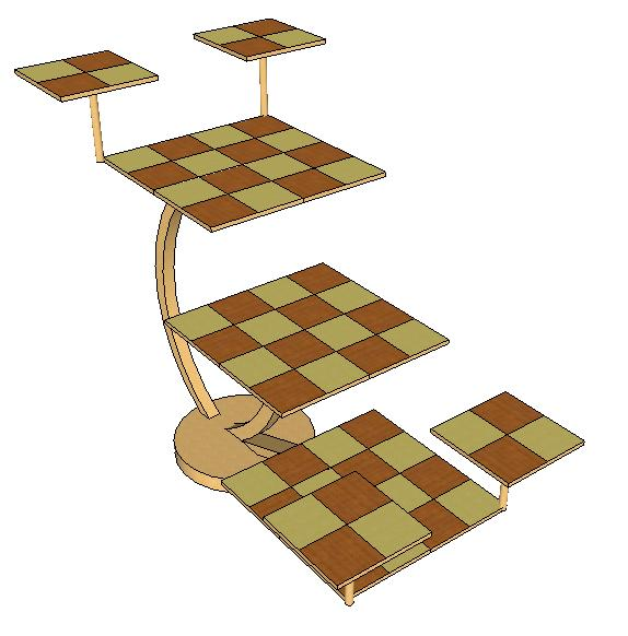 Star Trek style 3D chess board